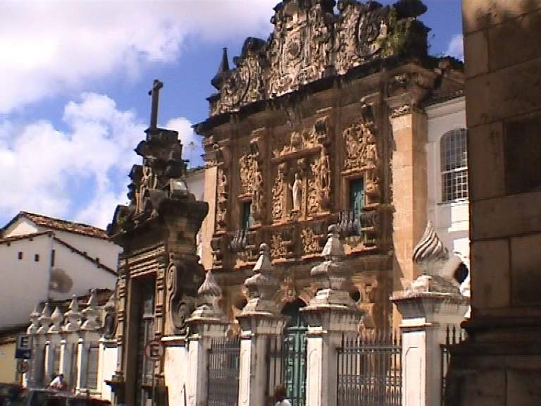 Barroc church in Pelourinho